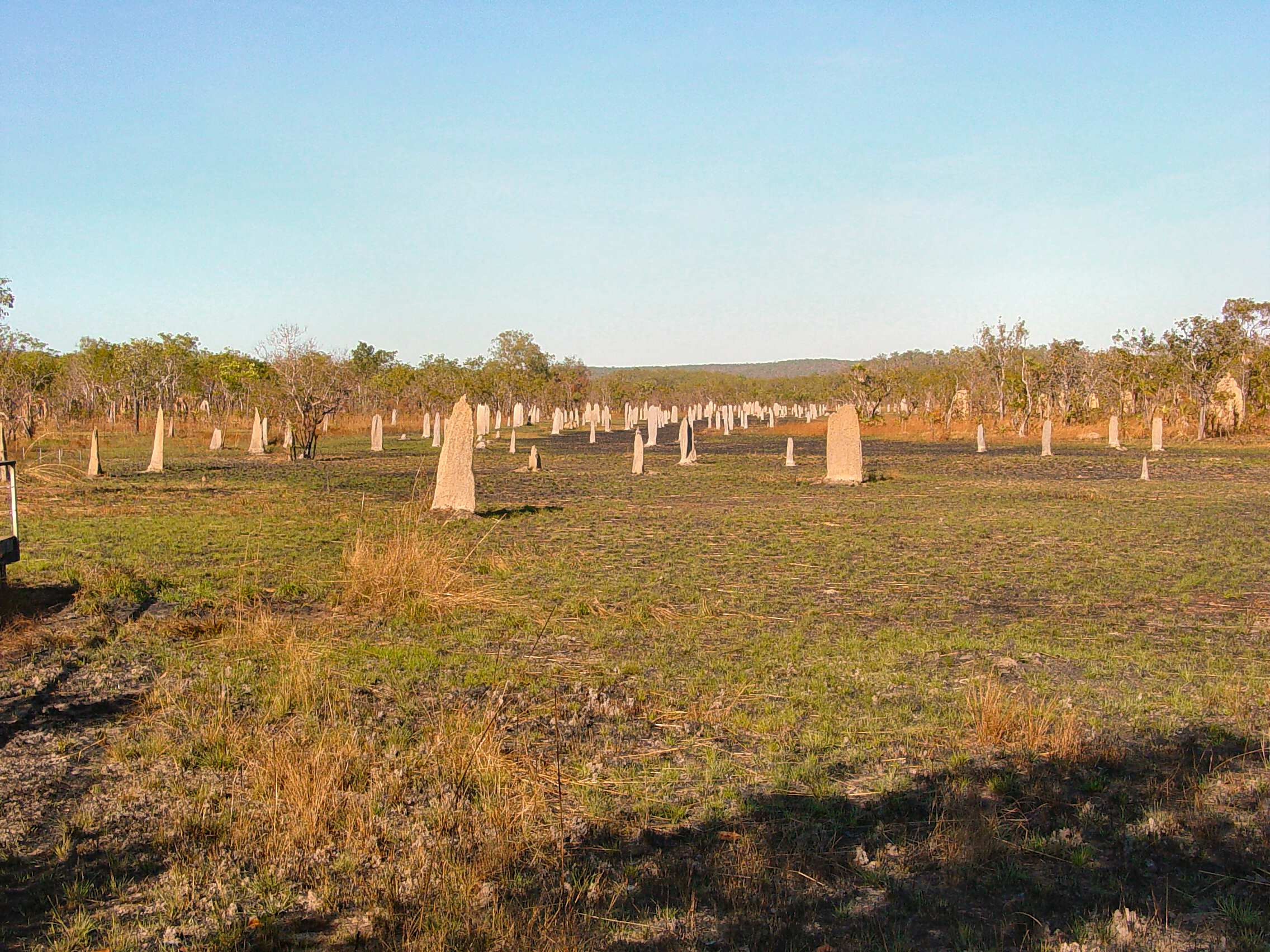 Magnetic Termite Mounds in Litchfield National Park in the Northern Territory, Australia.